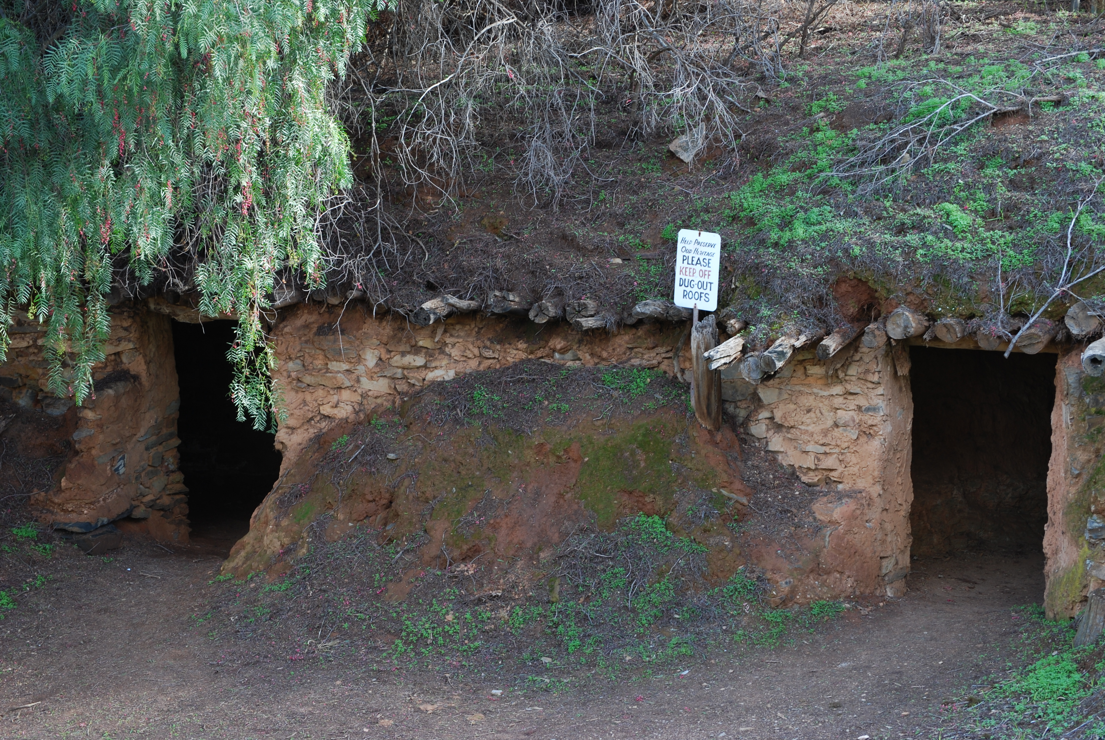 Miner's dugouts in a creek wall. Thousands used to live in these in the mid 18th century. Burra, South Australia